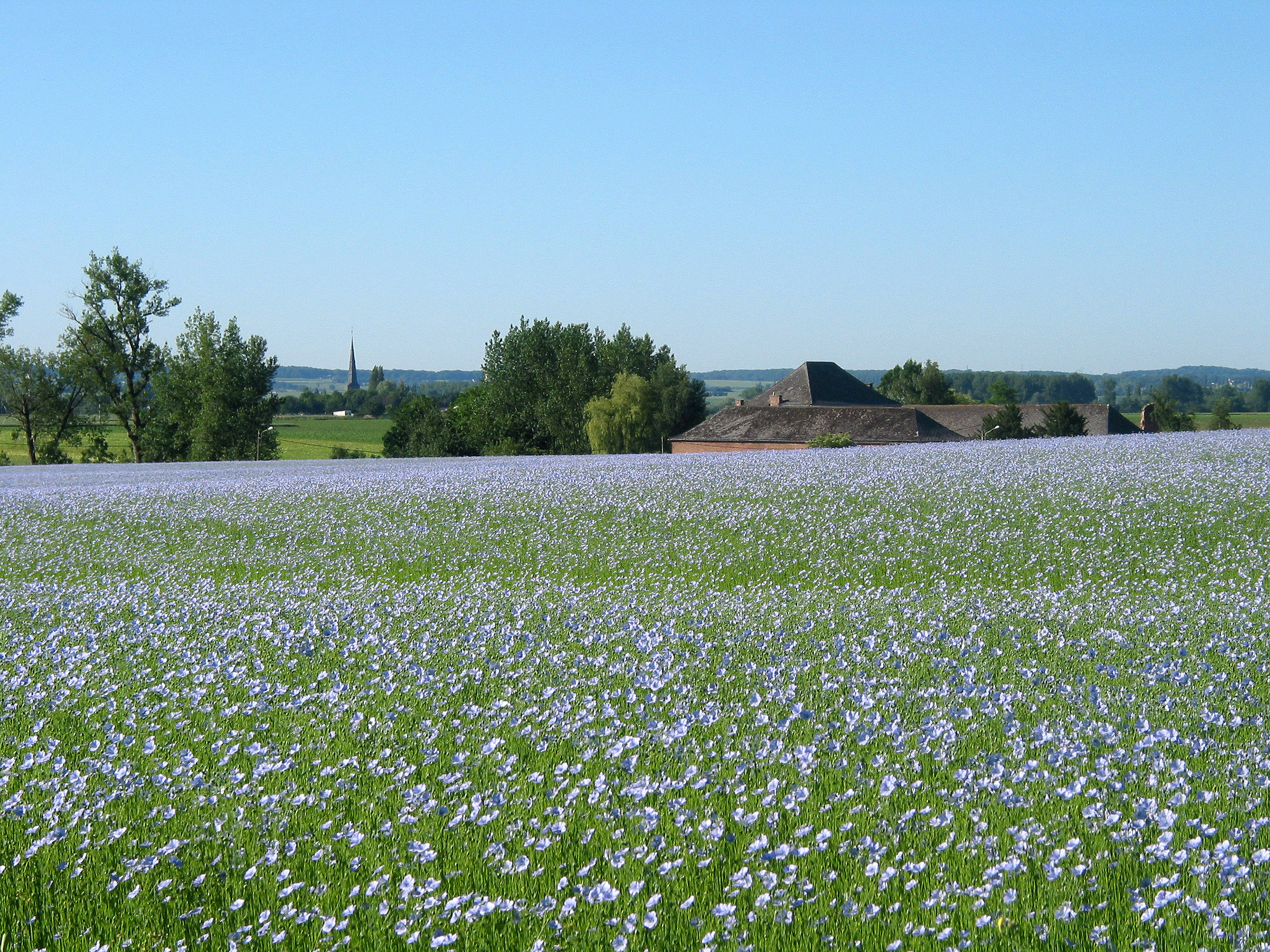 Grand-Reng (Belgium), linen (Linum usitatissimum) field in the springtime.